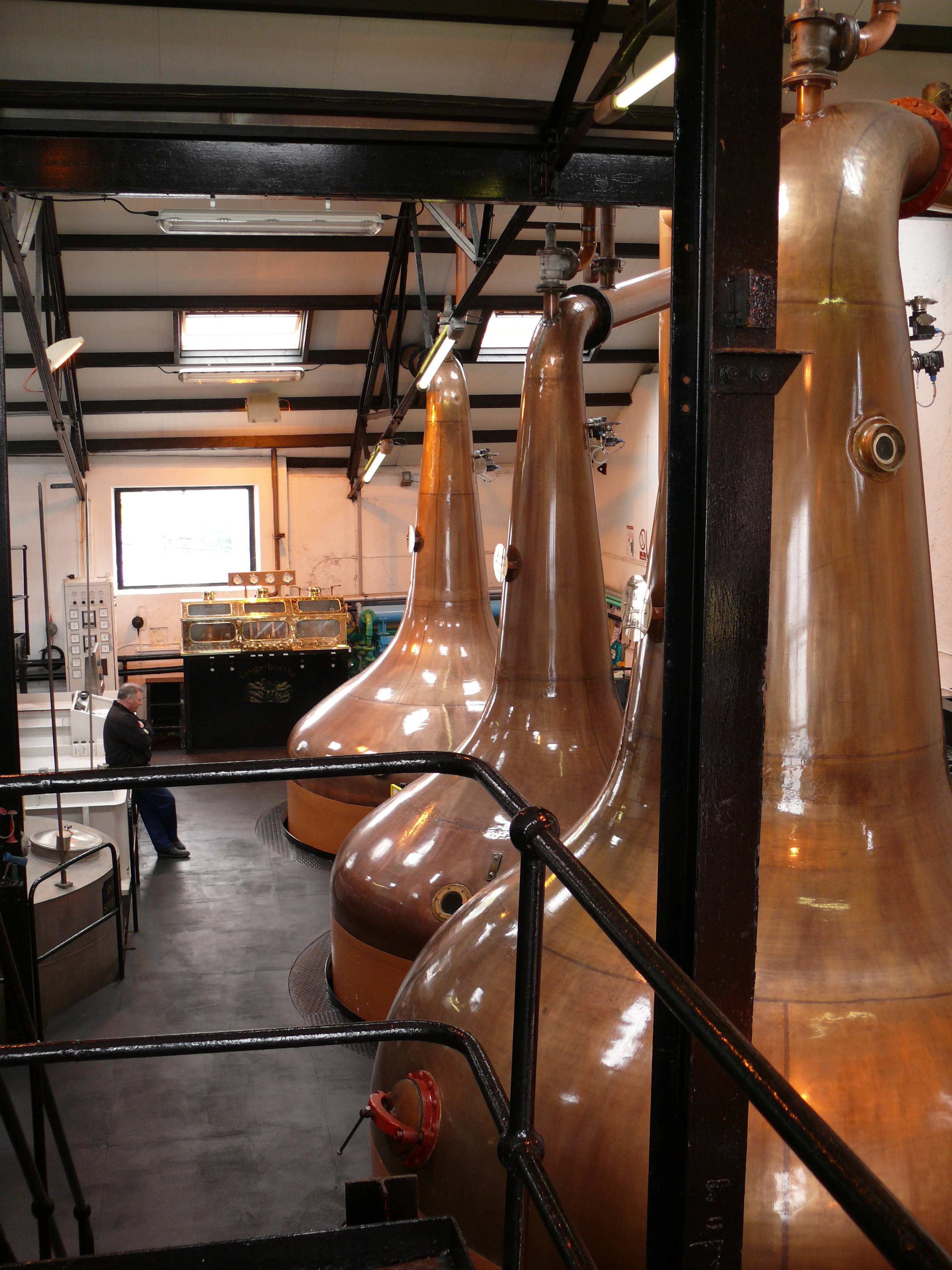 Bowmore distillery stills